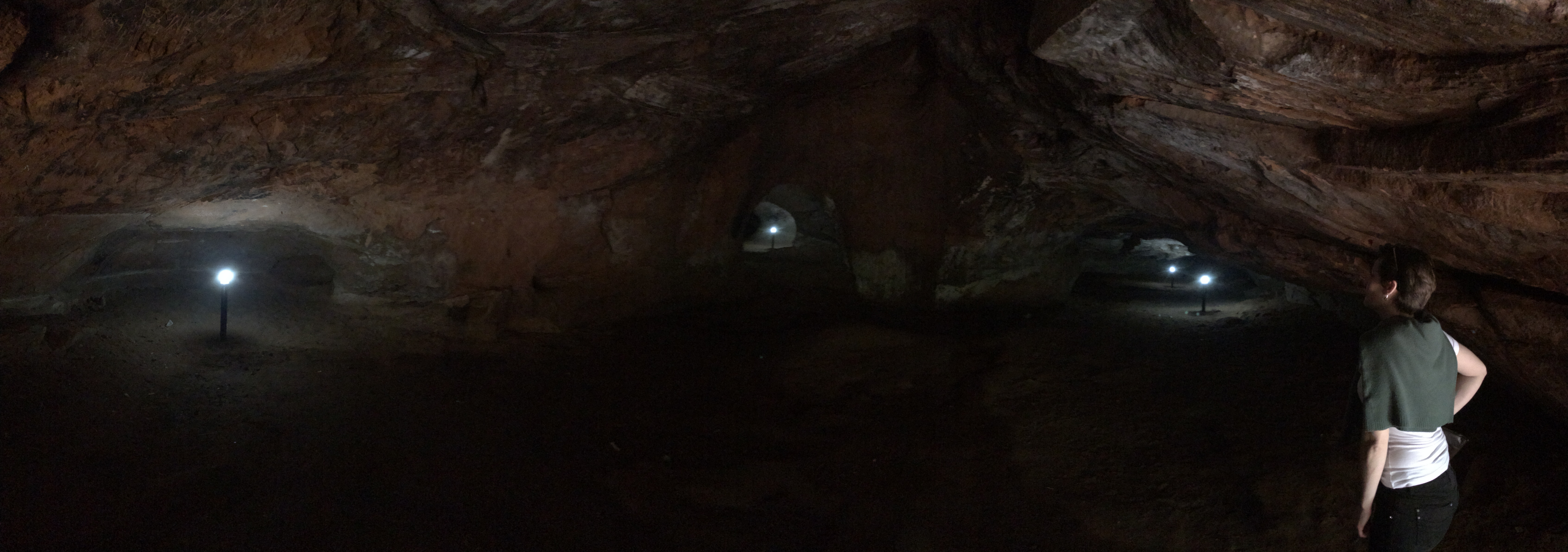 Parque da Gruta at Santa Cruz do Sul